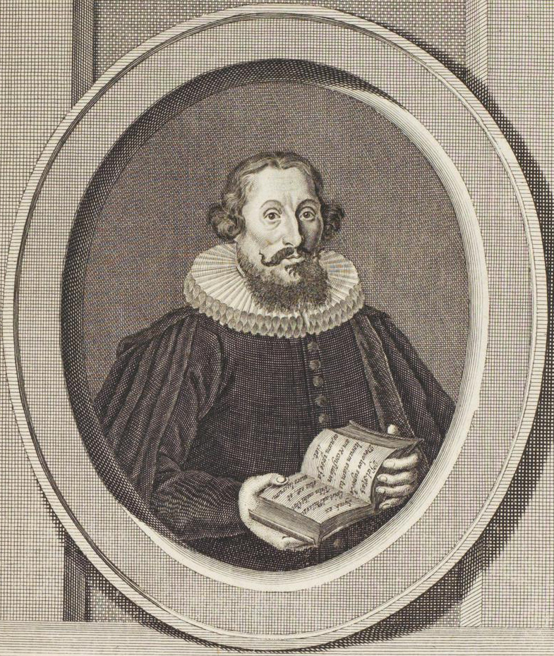 Engraved portrait of Johannes Cothmann, in: in: Monumenta inedita rerum Germanicarum praecipue Cimbriacarum et Megapolensium : quibus varia antiquitatum, historiarum, legum iuriumque Germaniae, speciatim Holsatiae et Megapoleos vicinarumque regionum argumenta illustrantur, supplentur et stabiliuntur ; cum tabulis aeri incisis / e codicibus ... studuit ... et cum praefatione instruxit Ernestus Joachimus de Westphalen .. Band 3, Lipsiae: Martin 1741